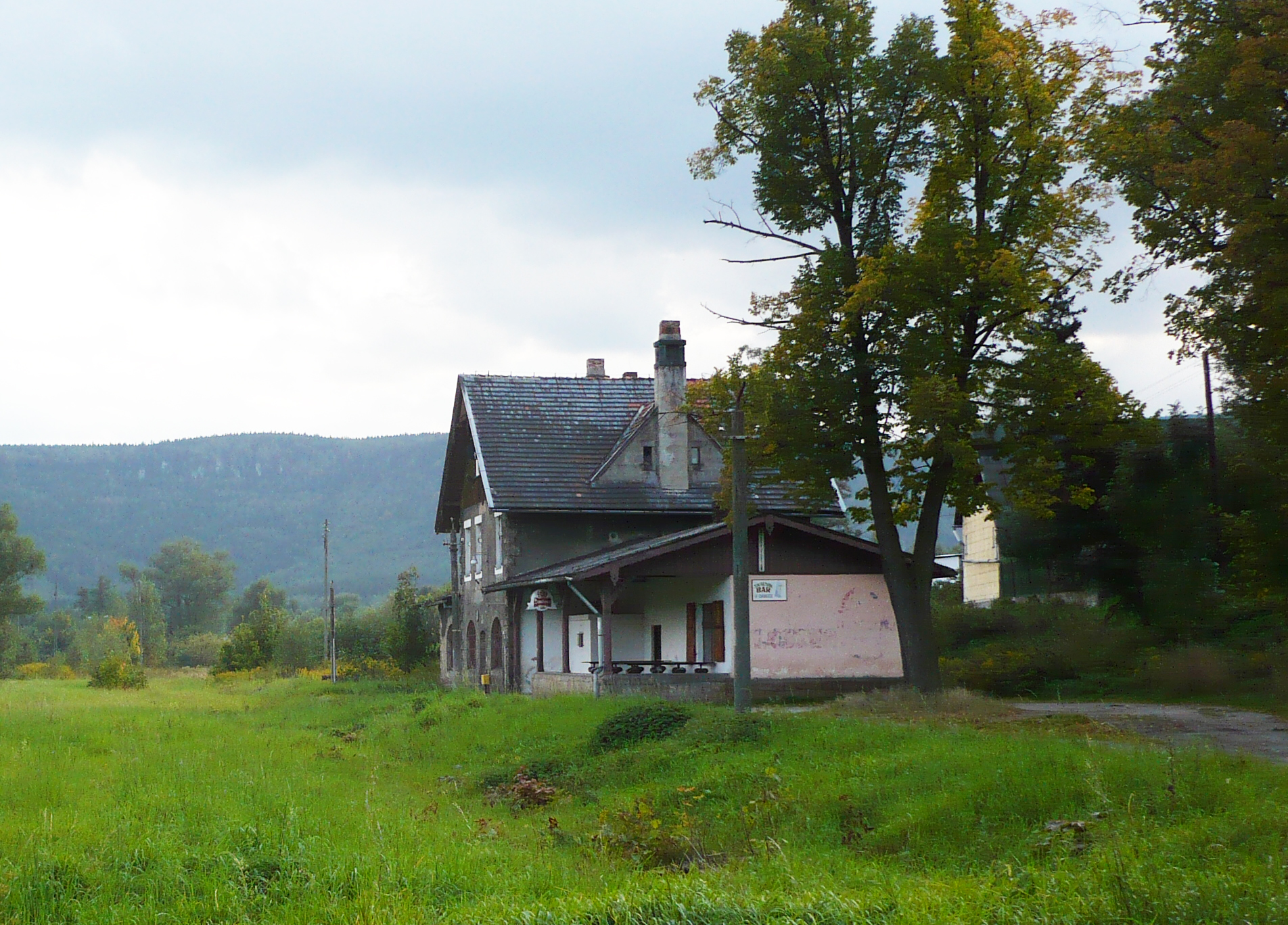 Abolished train station in Radków